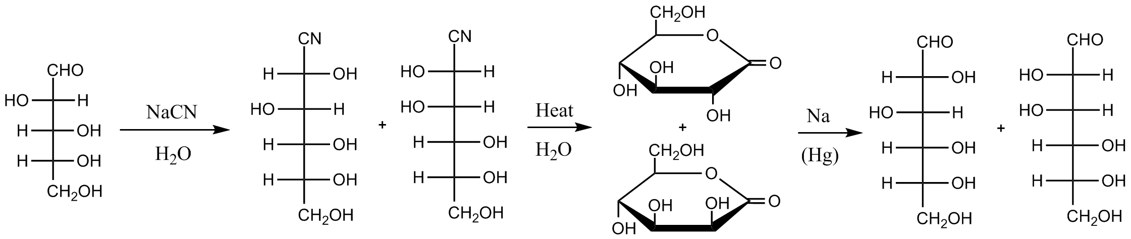 Kiliani-Fischer synthesis, part 1, drawn with ChemDraw